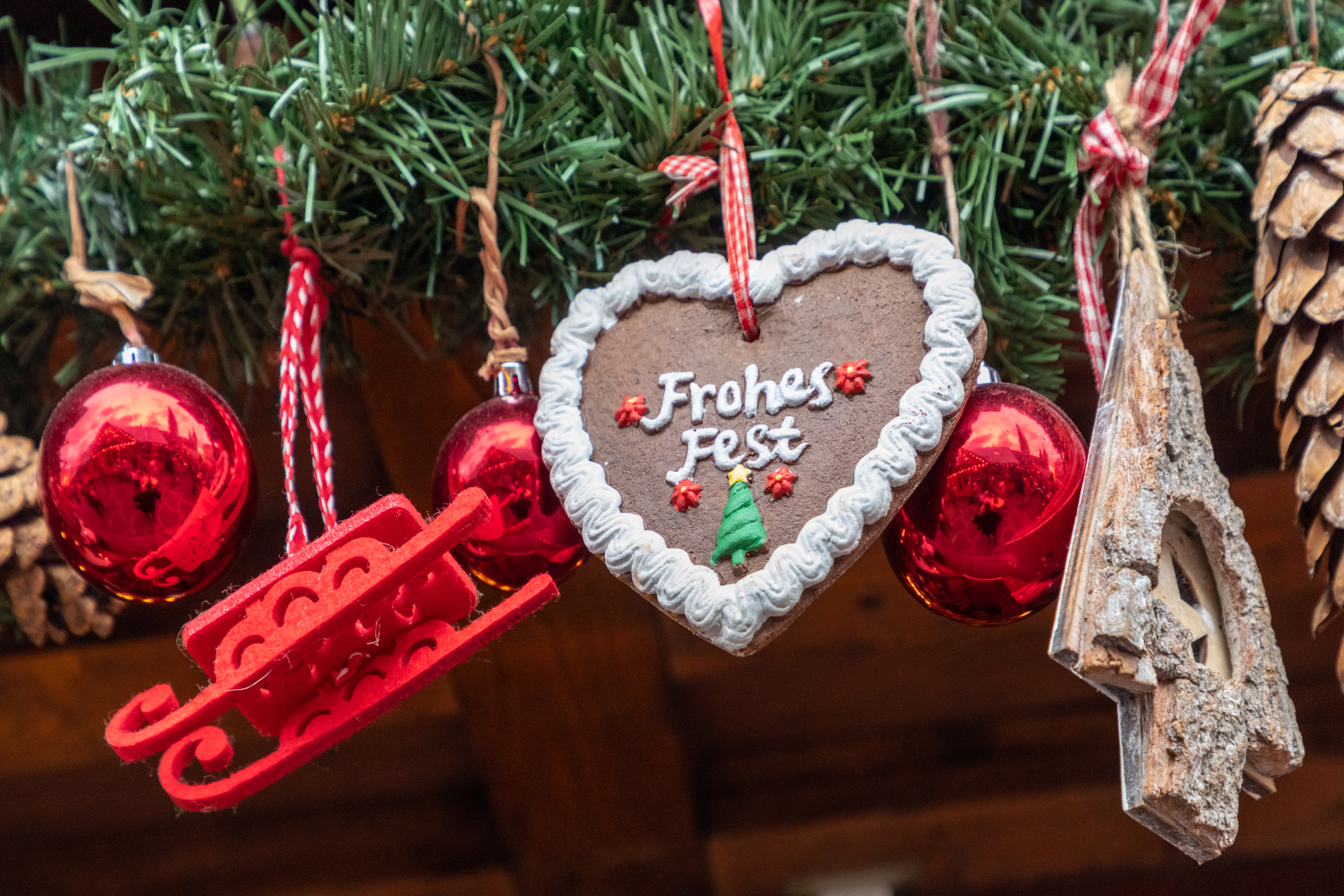 Christmas market in Bonn, North Rhine-Westphalia, Germany